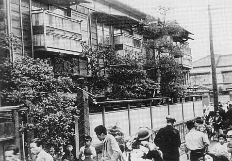 The scene of the Abe Sada Incident